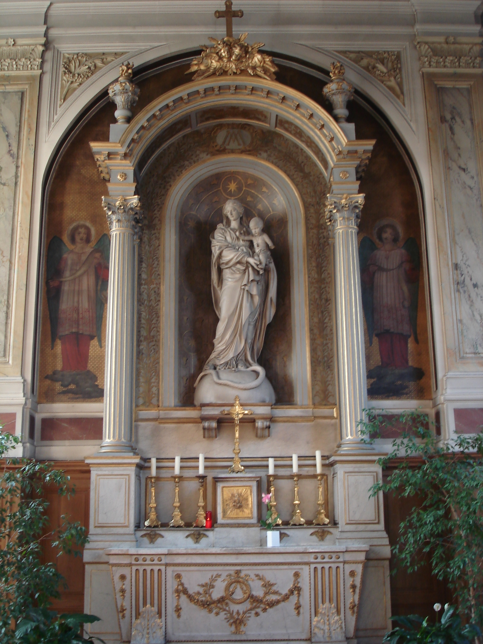 Church:Saint-Jacques-du-Haut-Pas (rue saint-Jacques - Paris Ve arrondissement). Statue of the virgin Mary with Jesus, crushing a snake. Statue in plaster of the 19e century.